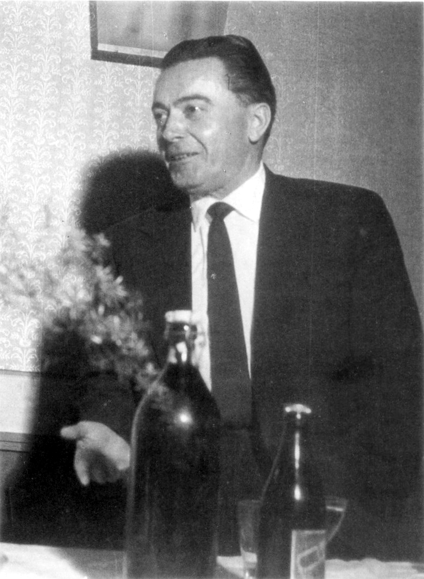 Lengyel Lajos (1904-1978) Hungarian graphic artist